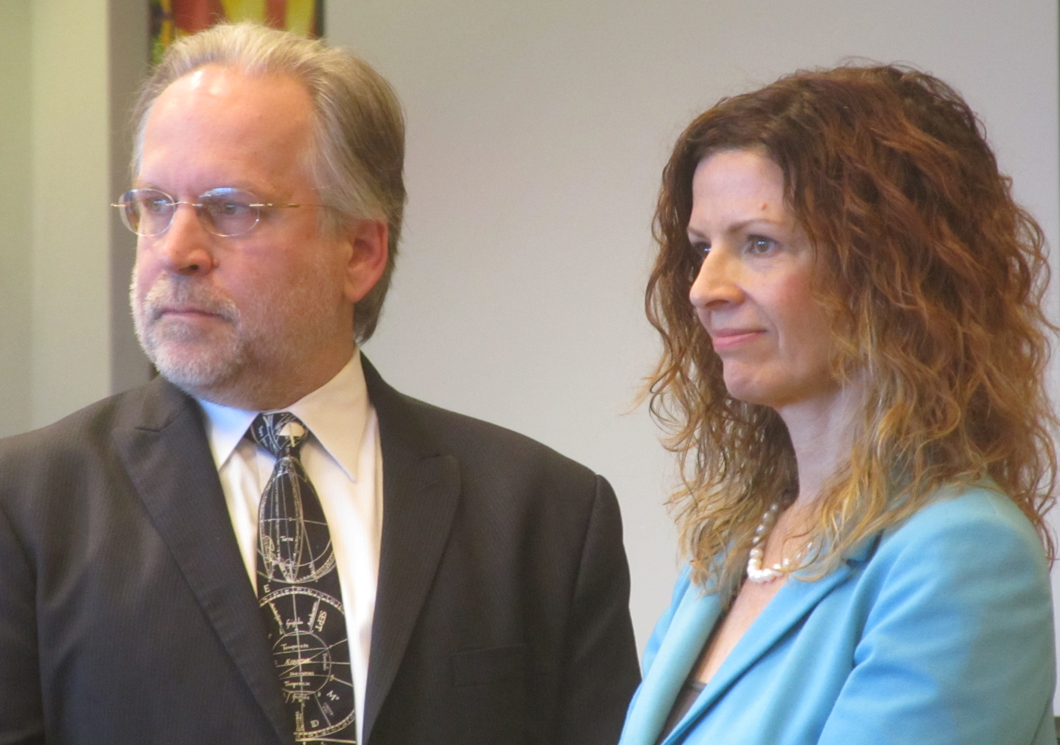 Jane Poynter and Taber MacCallum of World View Enterprises at the Pima County Board of Supervisors meeting 19 January 2016.